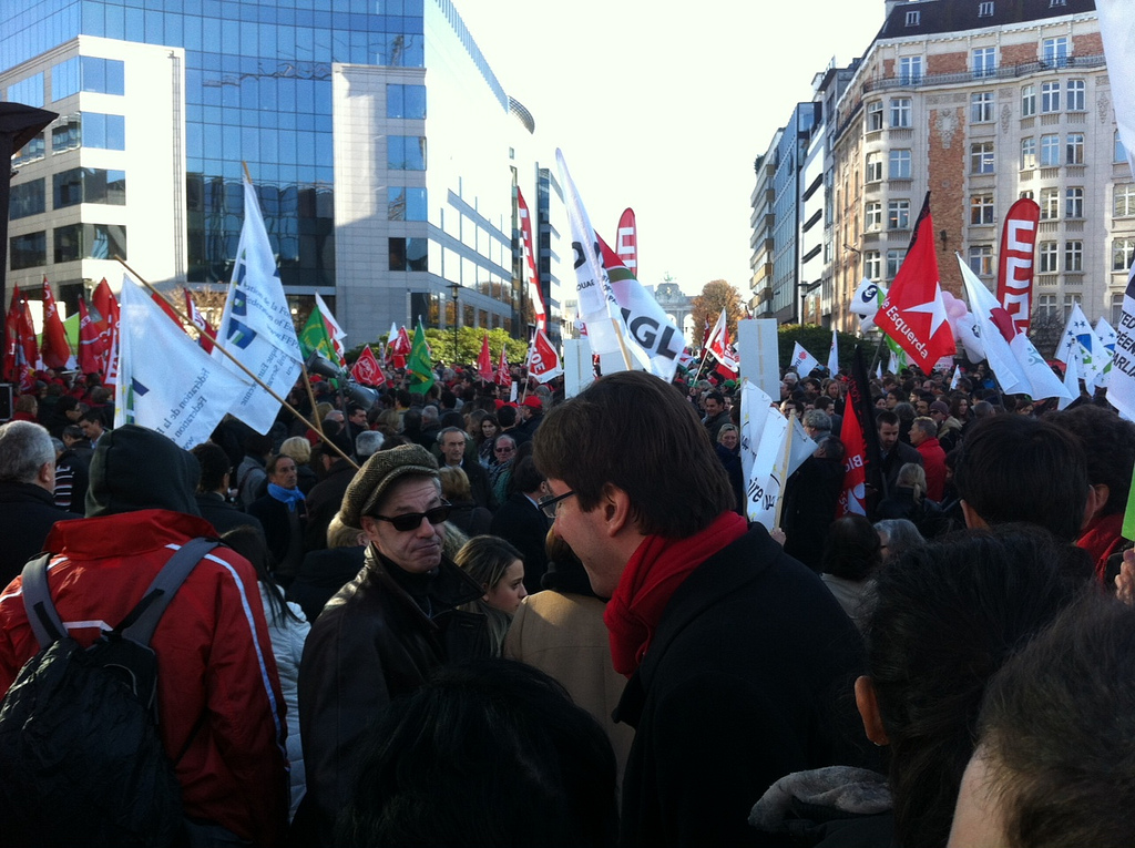 Demonstration in Brussels in 2012 november 14 european strike.